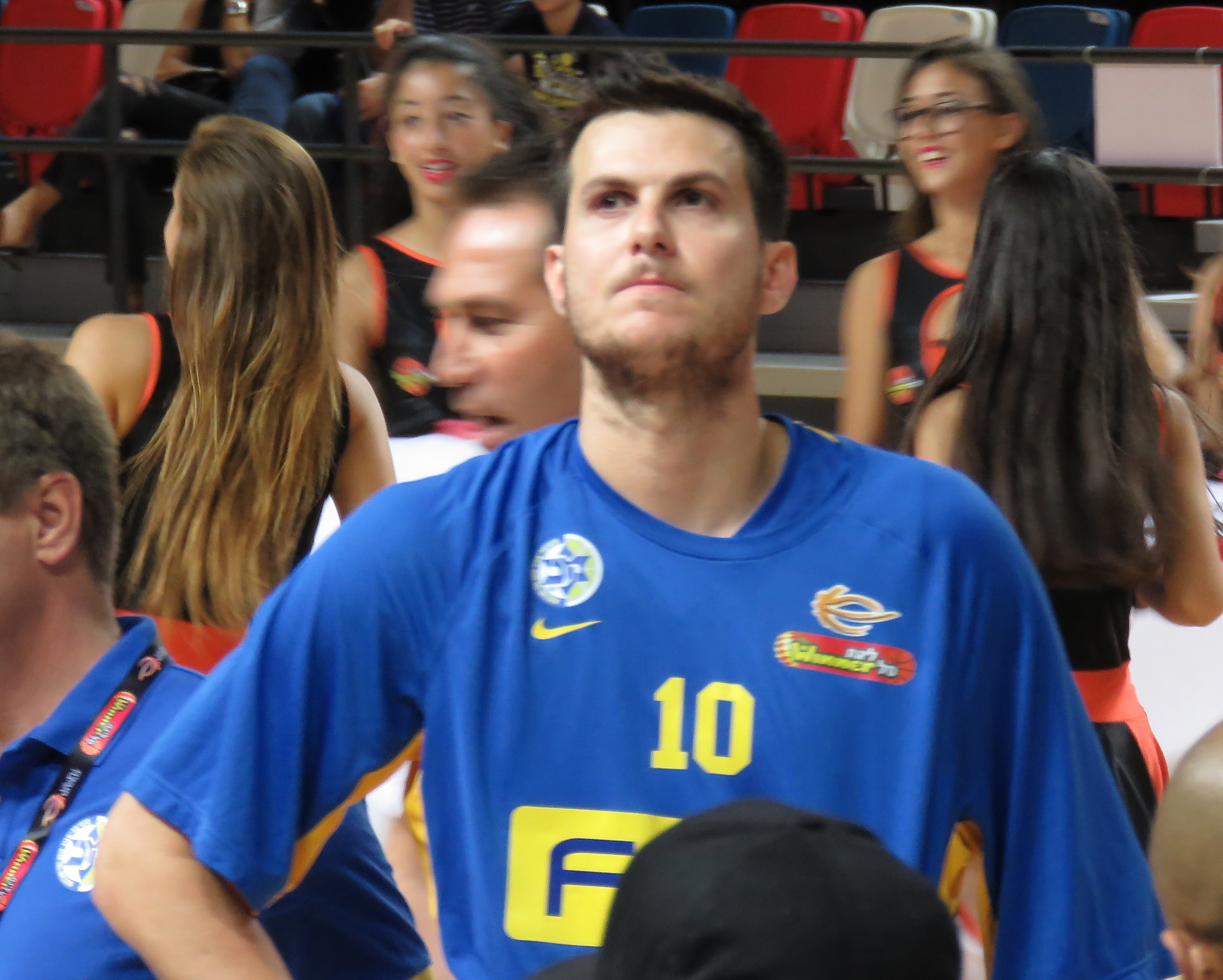 Maccabi Rishon LeZion vs. Maccabi Tel Aviv B.C., 26 September, 2015